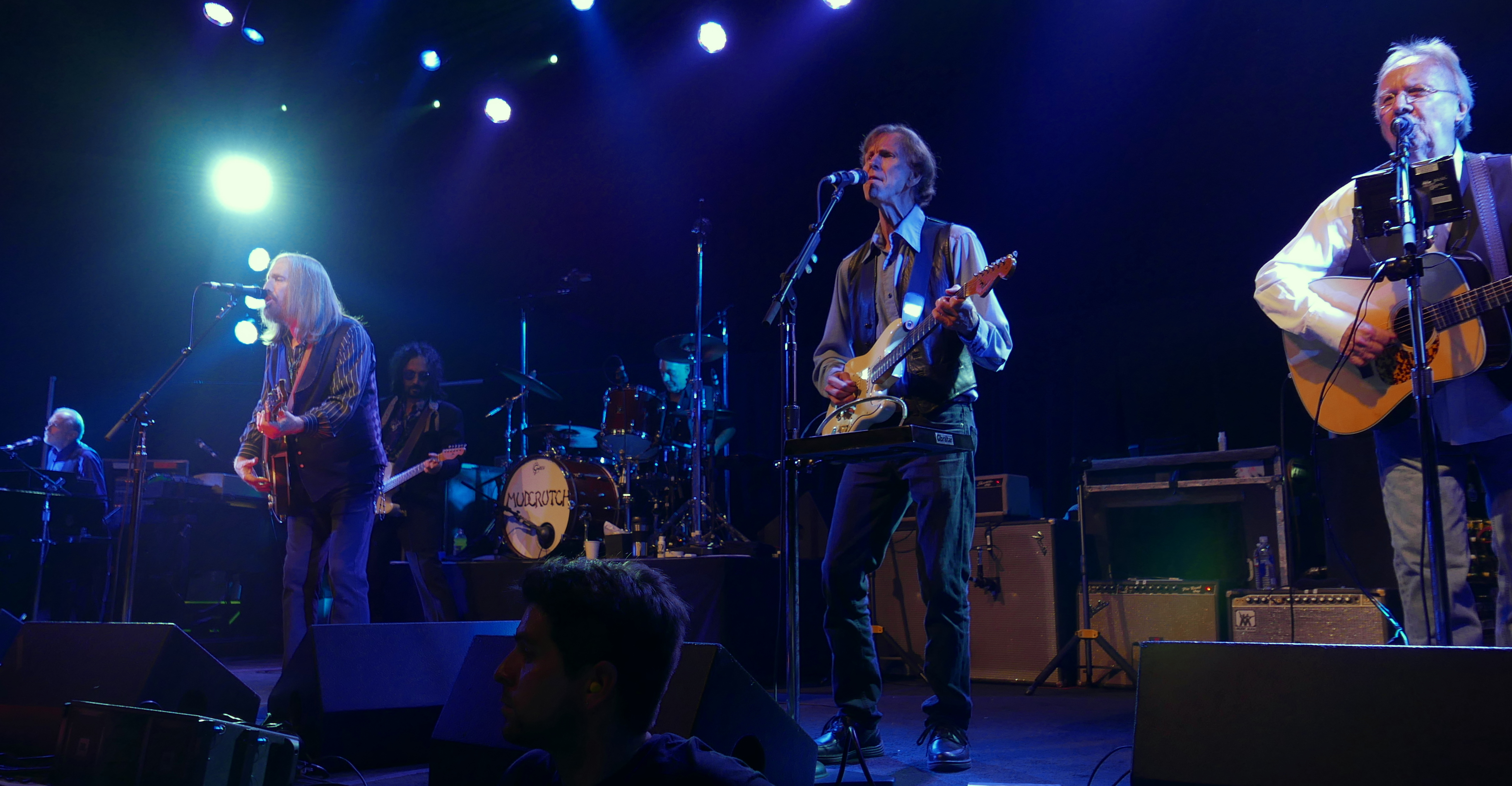 Mudcrutch on June 20, 2016 at The Fillmore, San Francisco